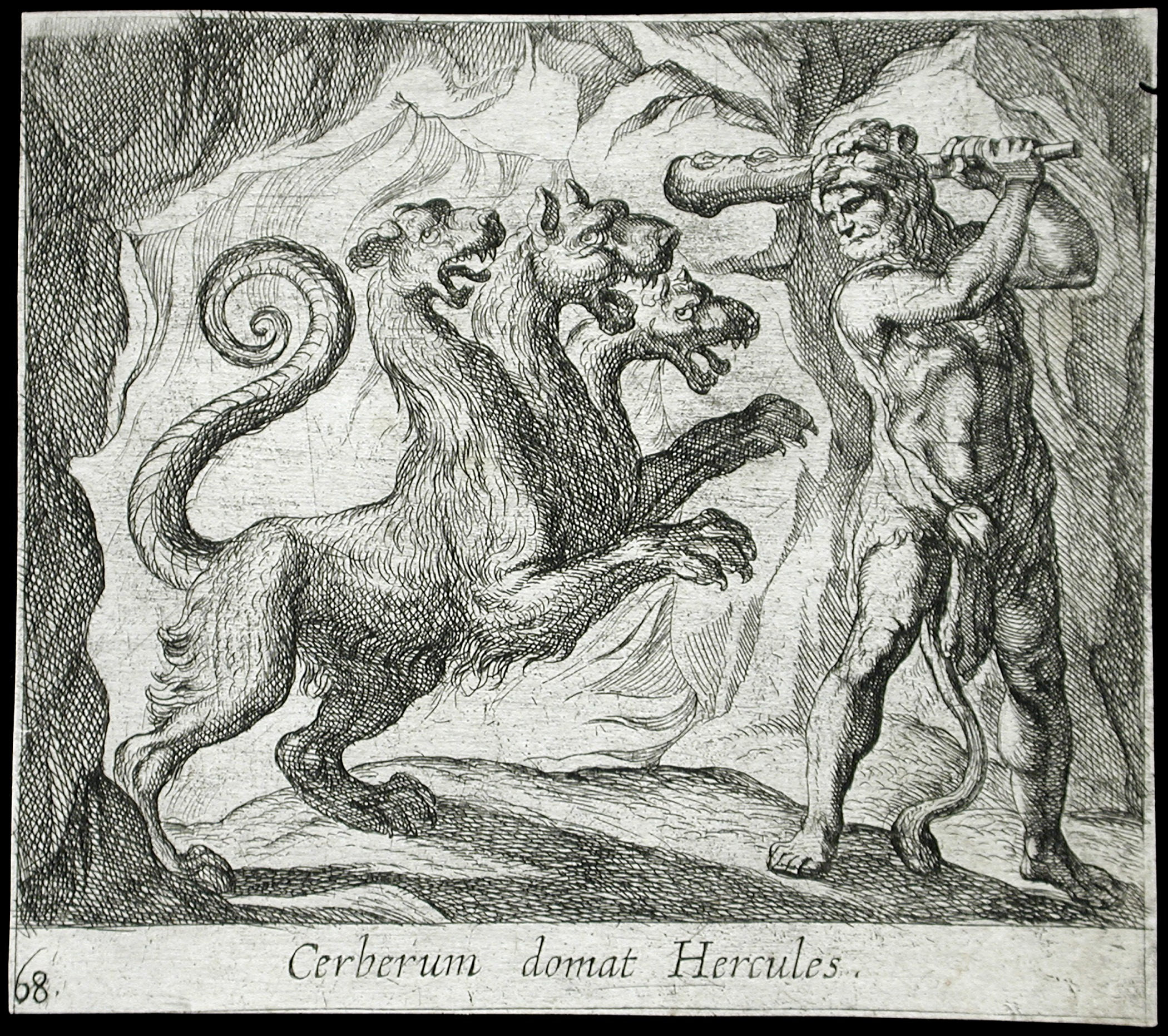 Italy, published 1606 Alternate Title: Cereberum domat Hercules Series: The Metamorphoses of Ovid, pl. 68 Edition: Second edition Prints; etchings Etching Los Angeles County Fund (65.37.151) Prints and Drawings